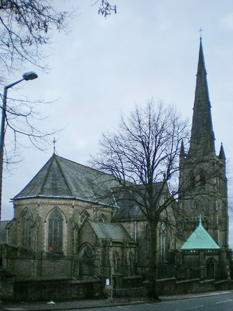 St Peter's RC Cathedral